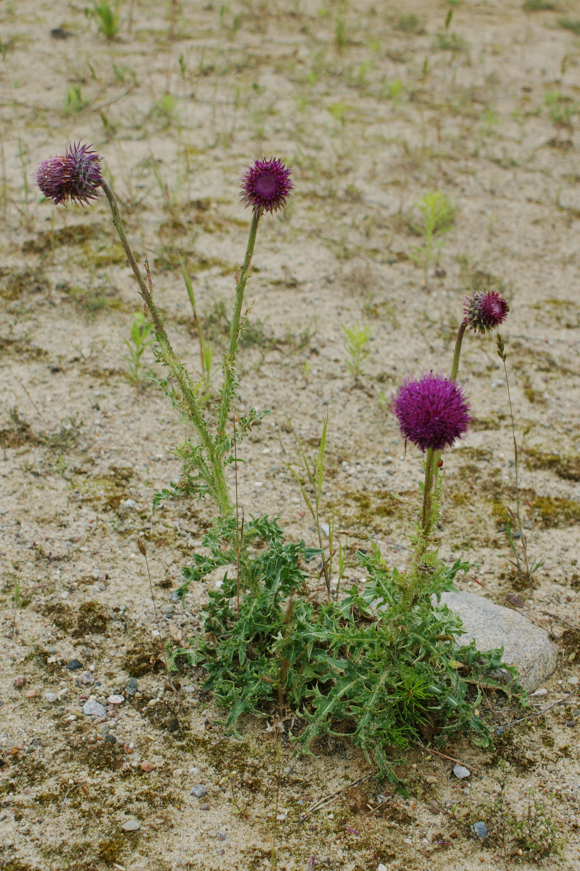 Carduus nutans